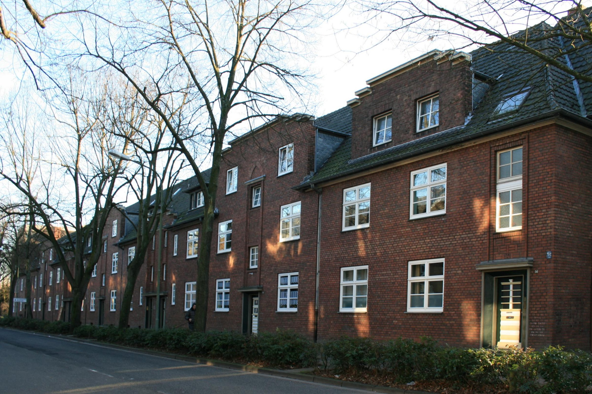 This is a photograph of an architectural monument.